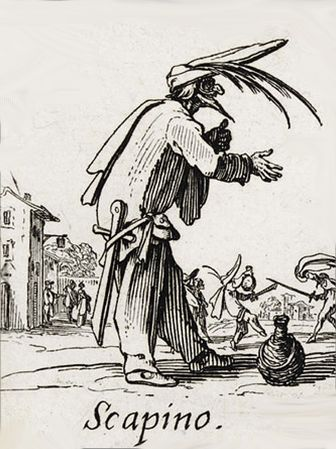 "Scapino" – etching by Jacques Callot (1592 – 1635) part of a series of etchings of commedia dell'arte figures, collectively called Balli di Sfessania.